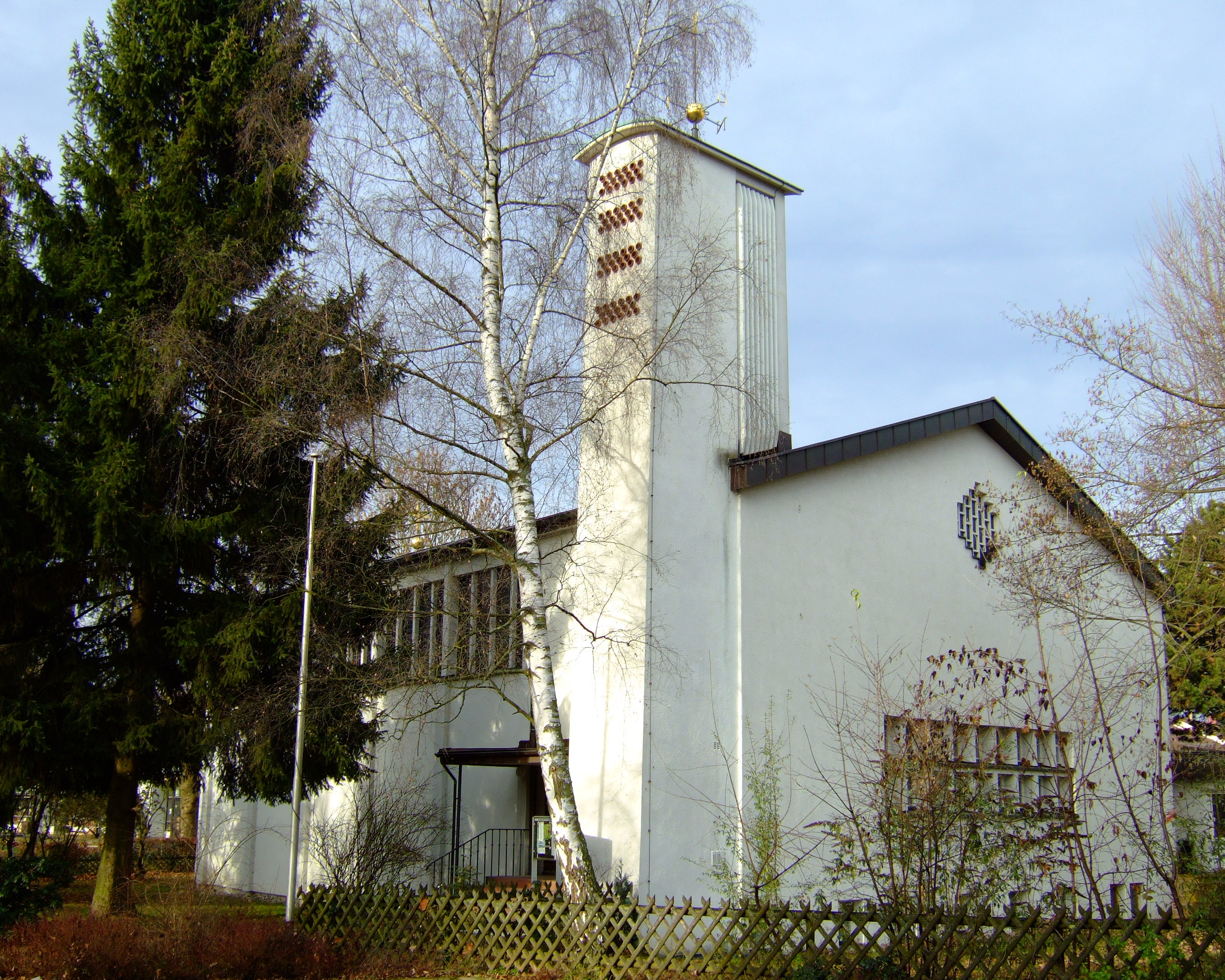 The Protestant Church "Heilig-Geist-Kirche" of Neckarsulm-Amorbach (the part of the town Neckarsulm)